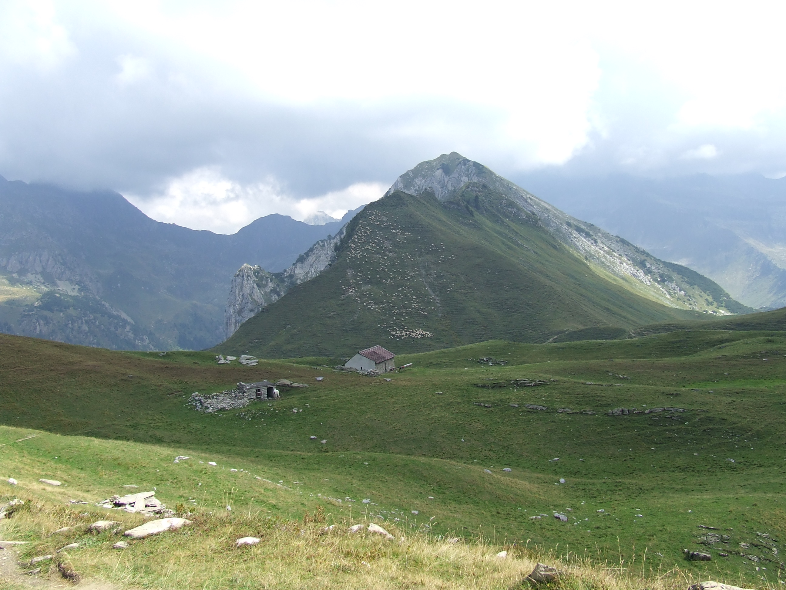 Flowers track, province of Bergamo, Italy